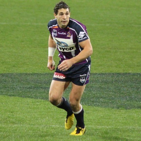 Billy Slater playing for the melbourne storm vs panthers 2010